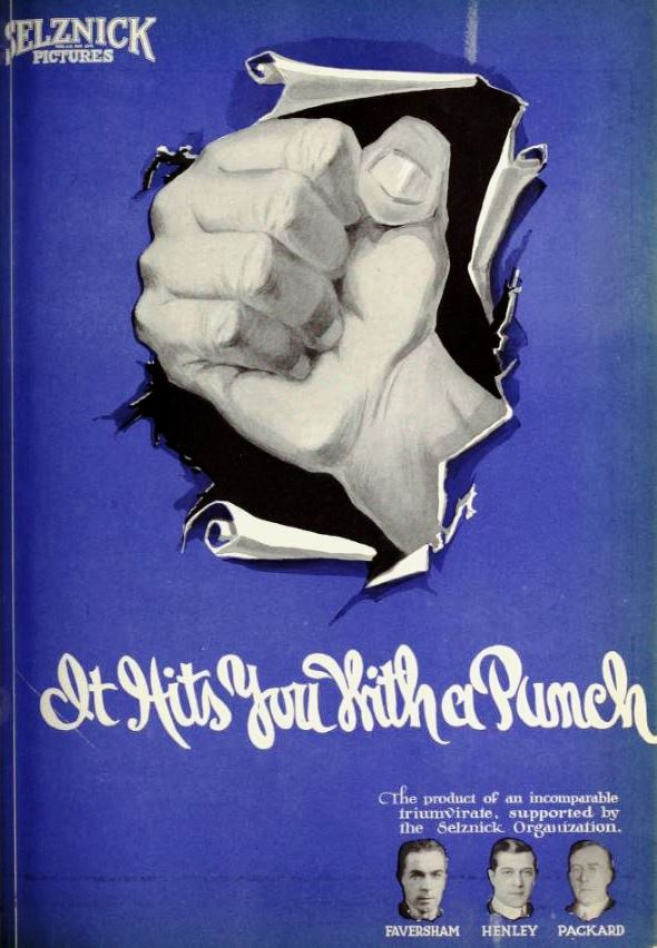 Advertisement for the American drama film The Sin That Was His (1920) with William Faversham, director Hobart Henley, and author Frank L. Packard, from the insert after page 18 of the December 18, 1920 Exhibitors Herald.